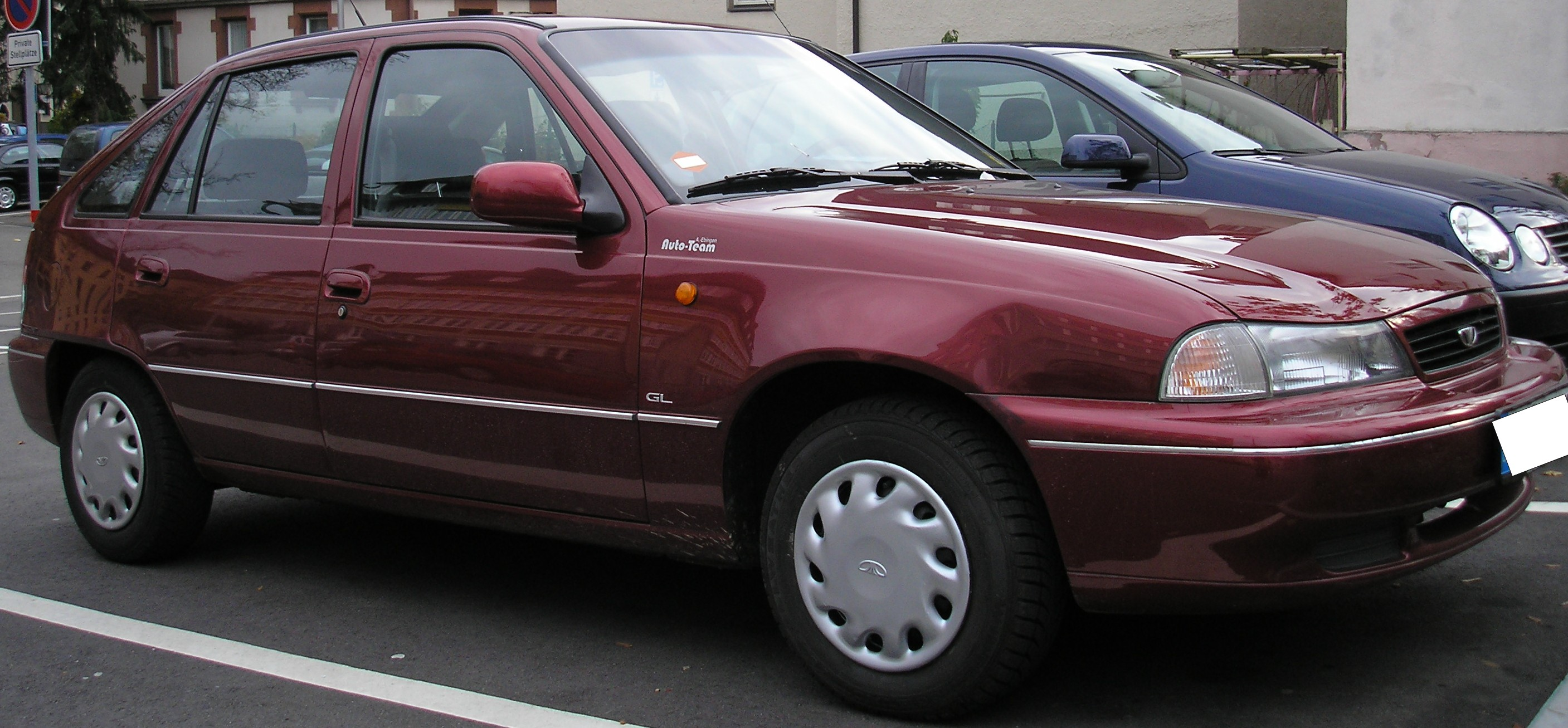 Daewoo Nexia 5door hatchback